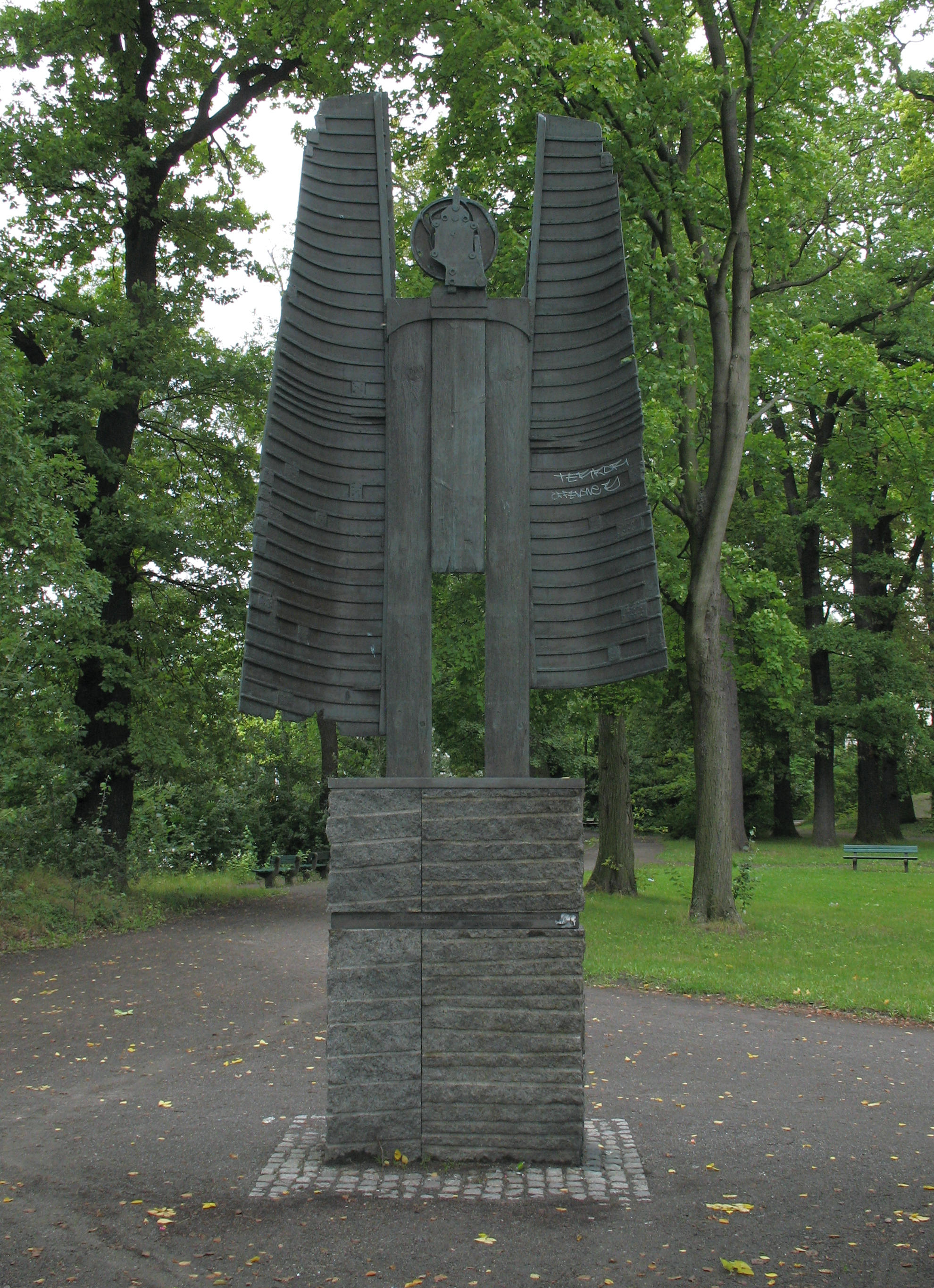 The „Der archaische Erzengel von Heiligensee“. Hommage à Hannah Höch) in Berlin-Tegel, Germany. The sculpture was created by Siegfried Kühl and inaugurated on November 1, 1989 – the 100th anniversary of Hannah Höch. It is situated at the Großer Malchsee, the northernmost bay of the Lake Tegel.